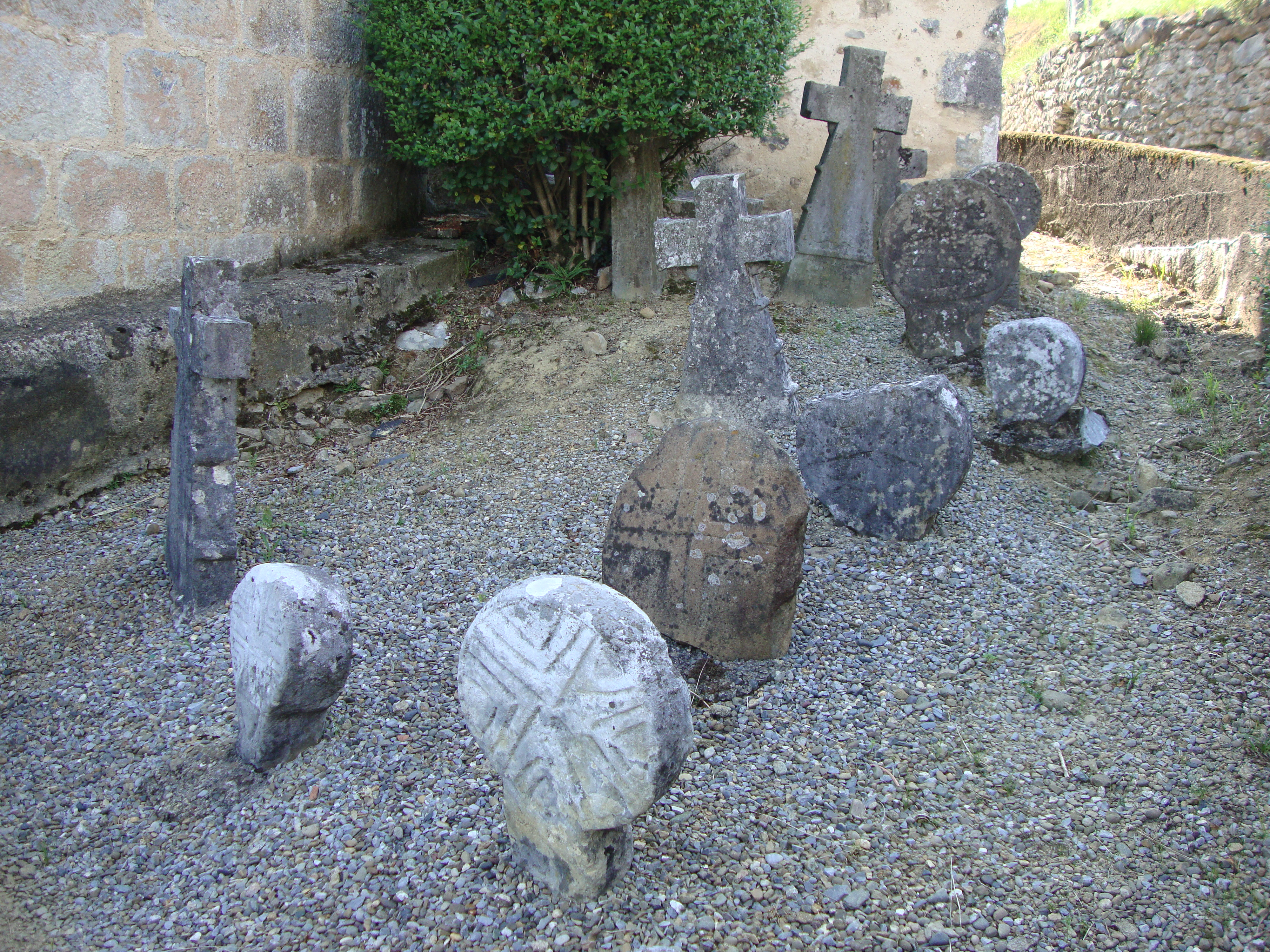 Alçabéhéty (Alçay-Alçabéhéty-Sunharette, Pyr-Atl, Fr) old basque steles.